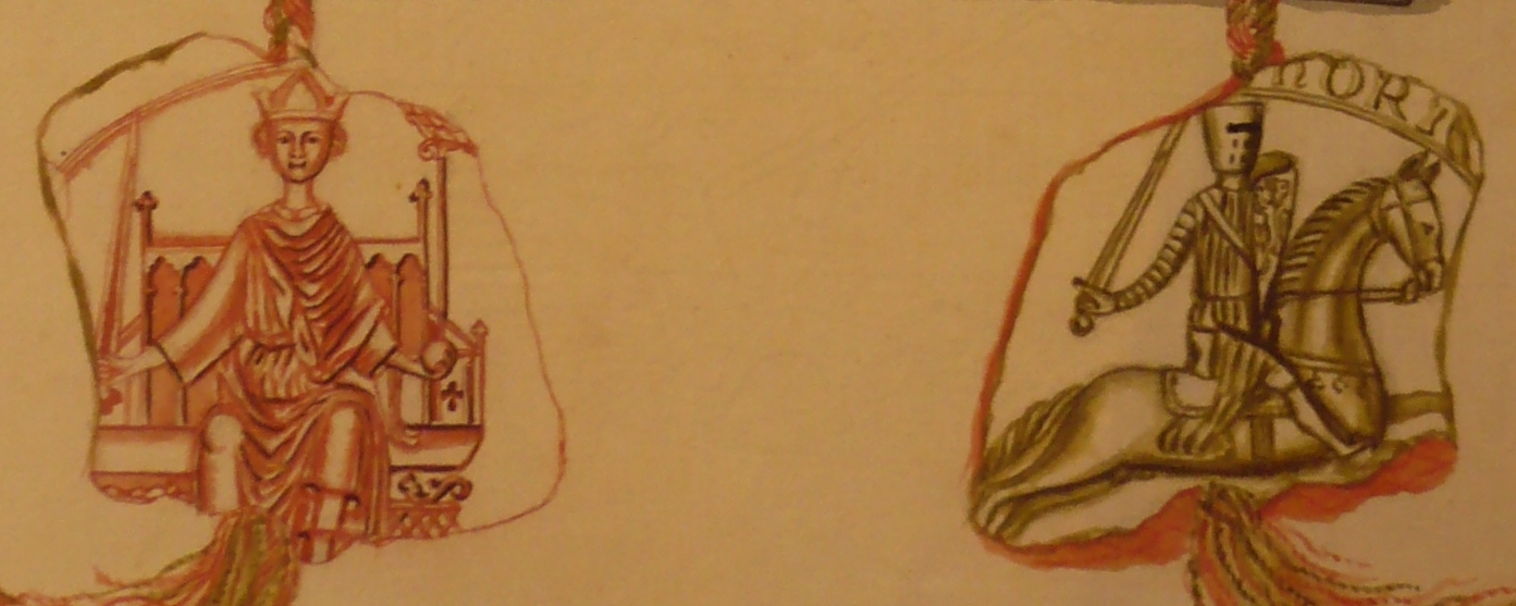 Arms of king Magnus Håkonson Lagabøte